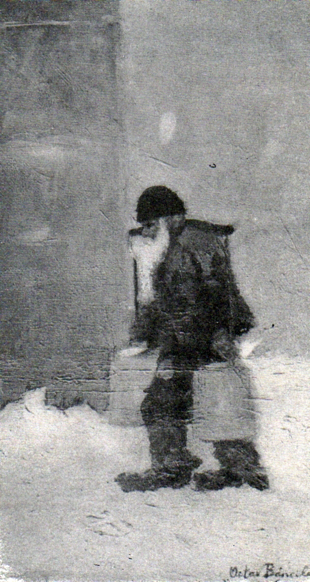 The man who brings water - a variant from 1906